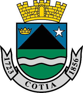 Badge of Cotia